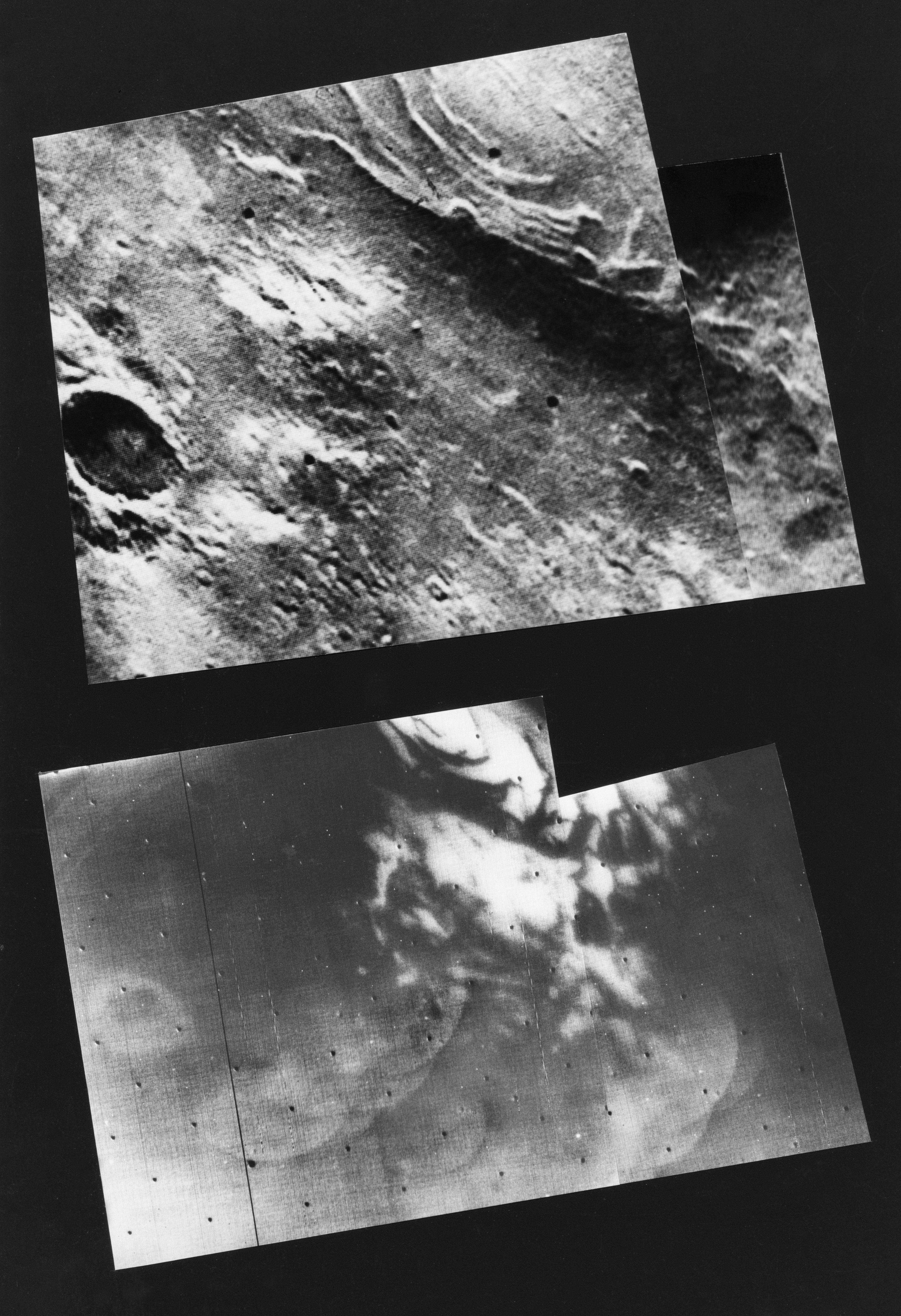 (August 1969) This mosaic of Mariner 9 frames (top), taken during the first orbit, shows the remnants of the south polar cap of Mars dimly through the great dust storm. Mariner 7 photographed the same area in August, 1969 (bottom) at which time the entire region was covered with dry ice. The strange quasilinear features of 1969 have been replaced by a number of bright curved appendages never before seen on Mars and, at this time, unexplained. Mariner 9 was the first spacecraft to orbit another planet. The spacecraft was designed to continue the atmospheric studies begun by Mariners 6 and 7, and to map over 70% of the Martian surface from the lowest altitude (1500 kilometers [900 miles])and at the highest resolutions (1 kilometer per pixel to 100 meters per pixel) of any previous Mars mission. Mariner 9 was launched on May 30, 1971 and arrived on November 14, 1971.